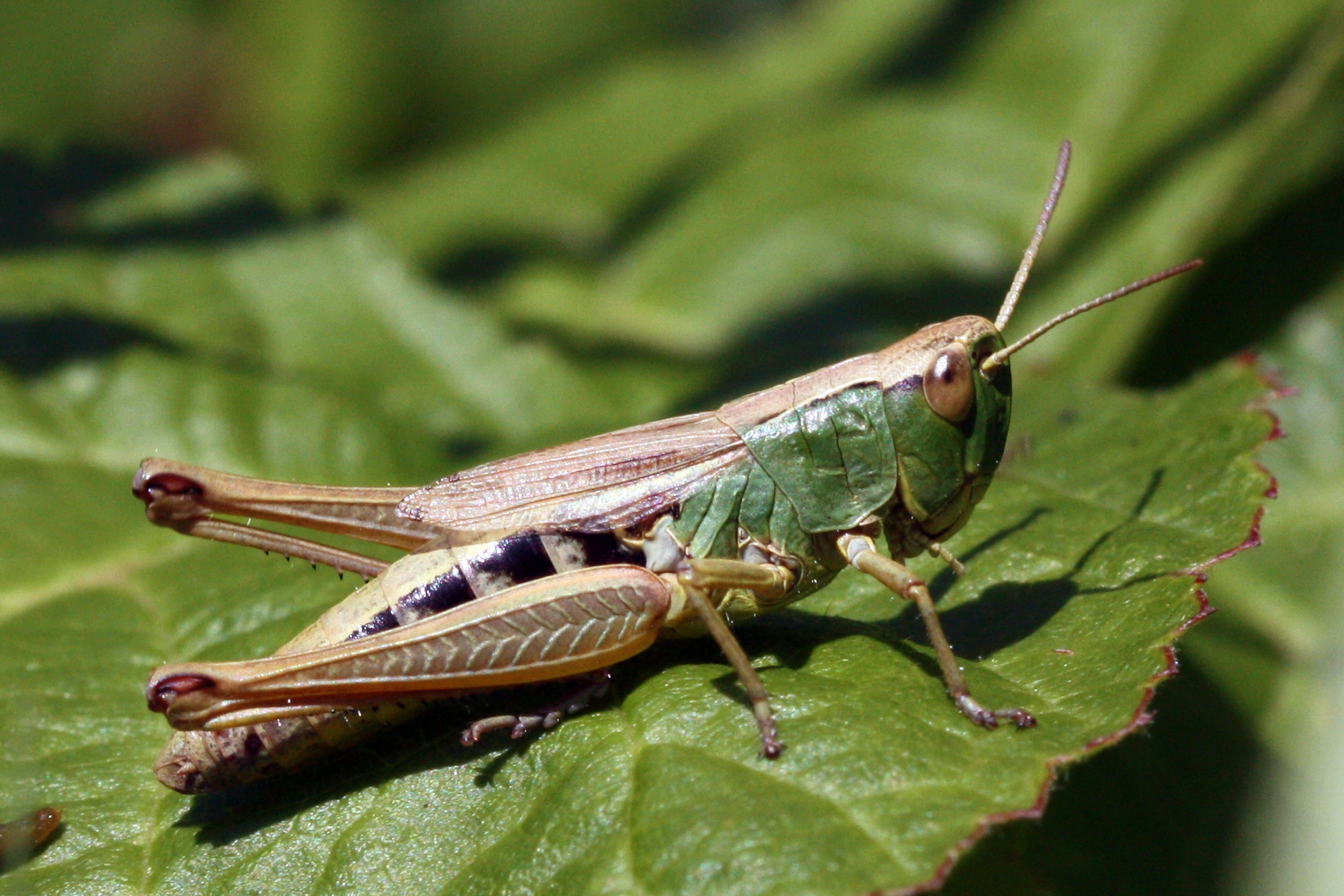 Meadow grasshopper (Chorthippus parallelus) nymph, Chimney Meadows, Oxfordshire